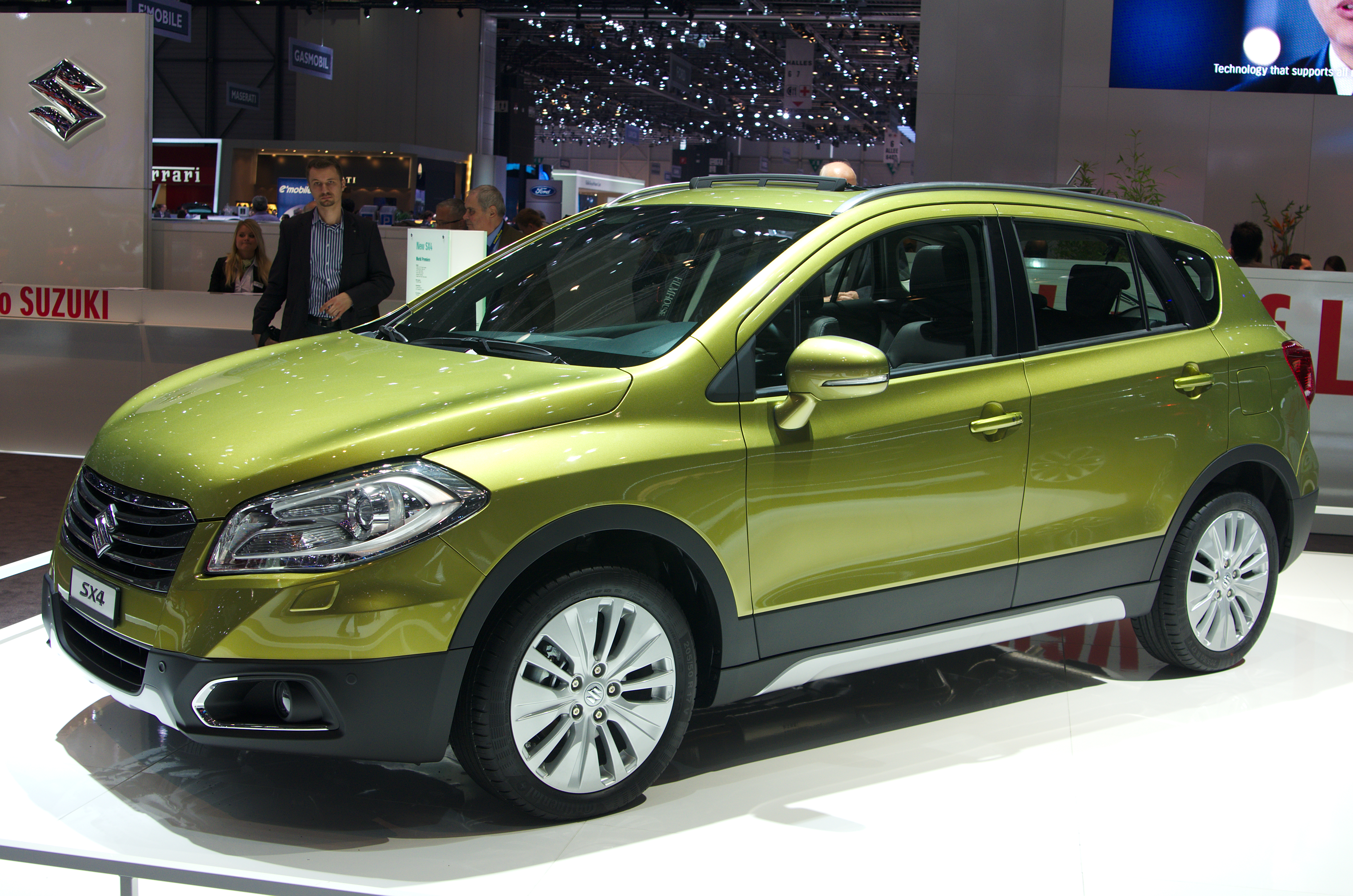 Geneva MotorShow 2013 - Suzuki SX4 olive